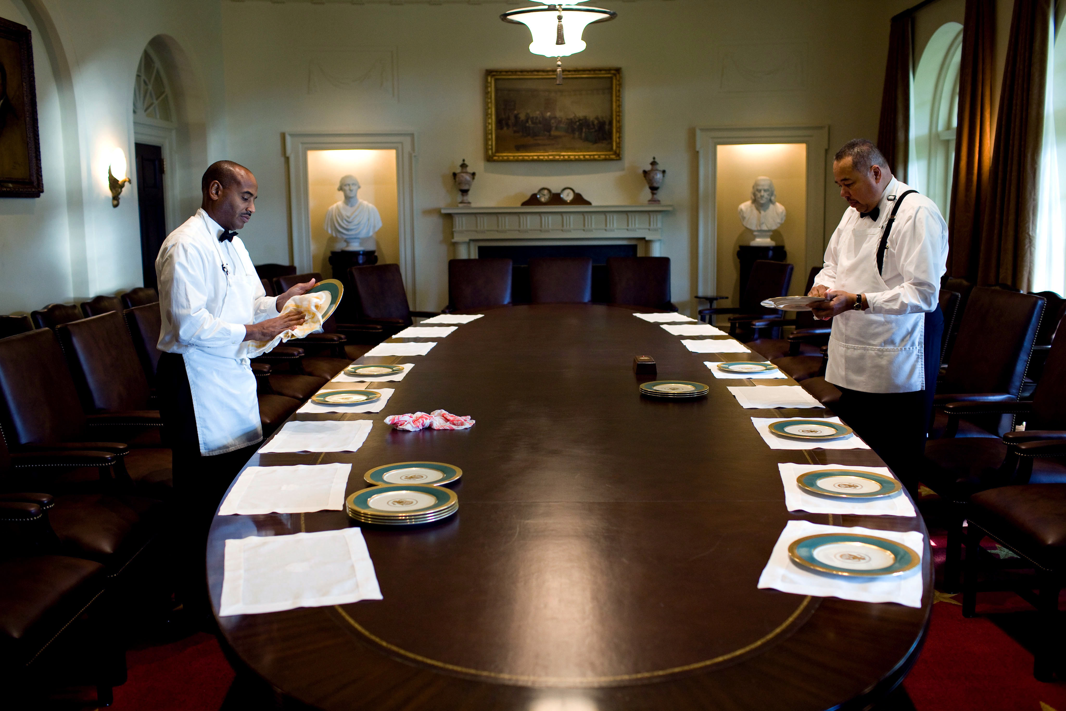 White House Butlers Ron Guy, left, and Von Everett, set the table in the Cabinet Room of the White House, prior to a working lunch with Spanish President Jose Luis Rodriguez Zapatero, Oct. 13, 2009. (Official White House Photo by Pete Souza)